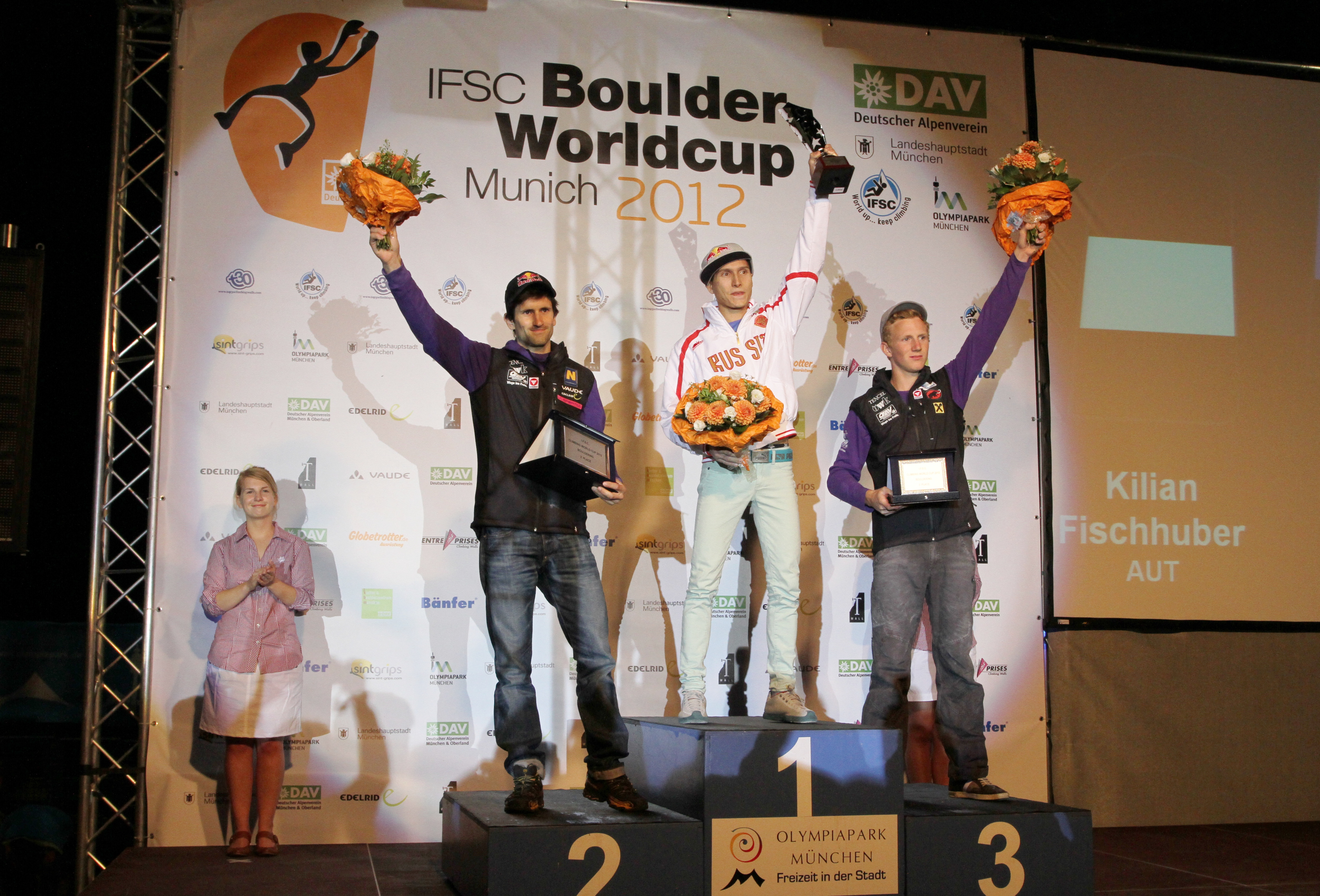 Male winners of the Climbing Worldcup season 2012, 1. Rustam Gelmanov RUS 2. Kilian Fischhuber AUS, 3. Jakob Schubert, AUS